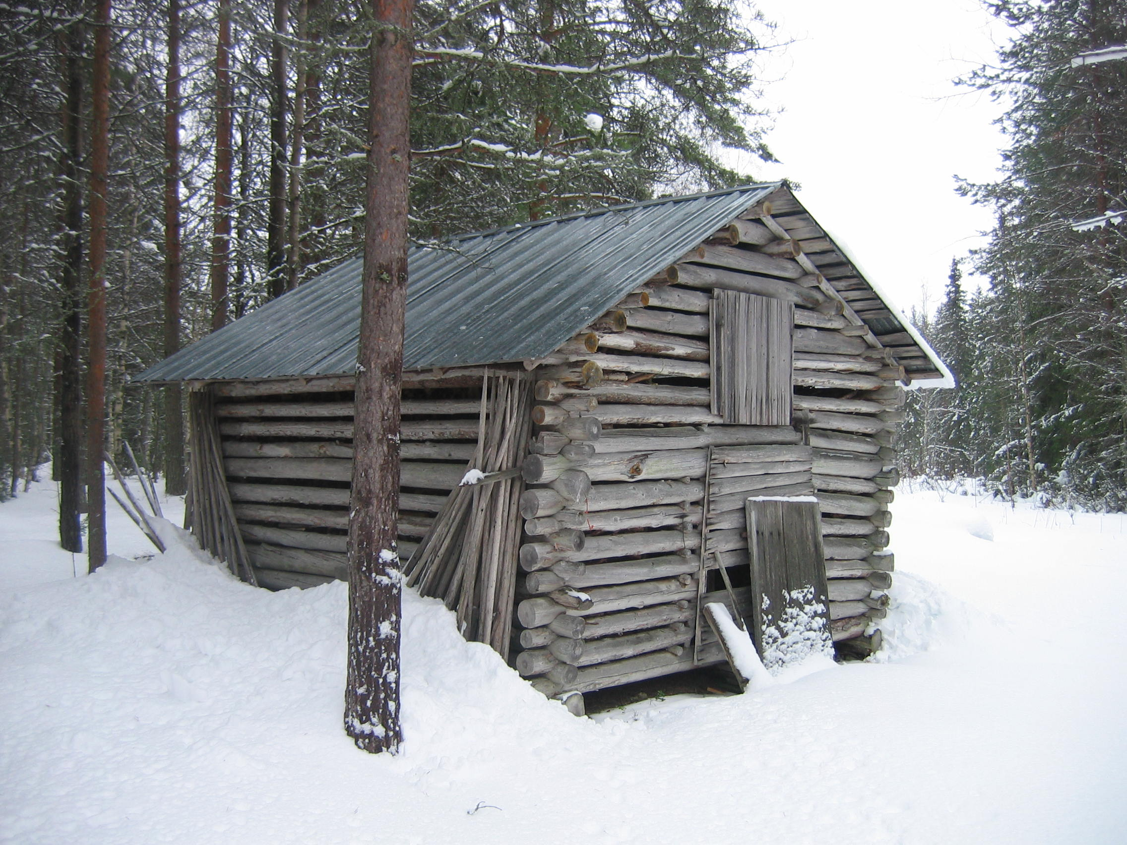 Old Finnish barn used to store hay.